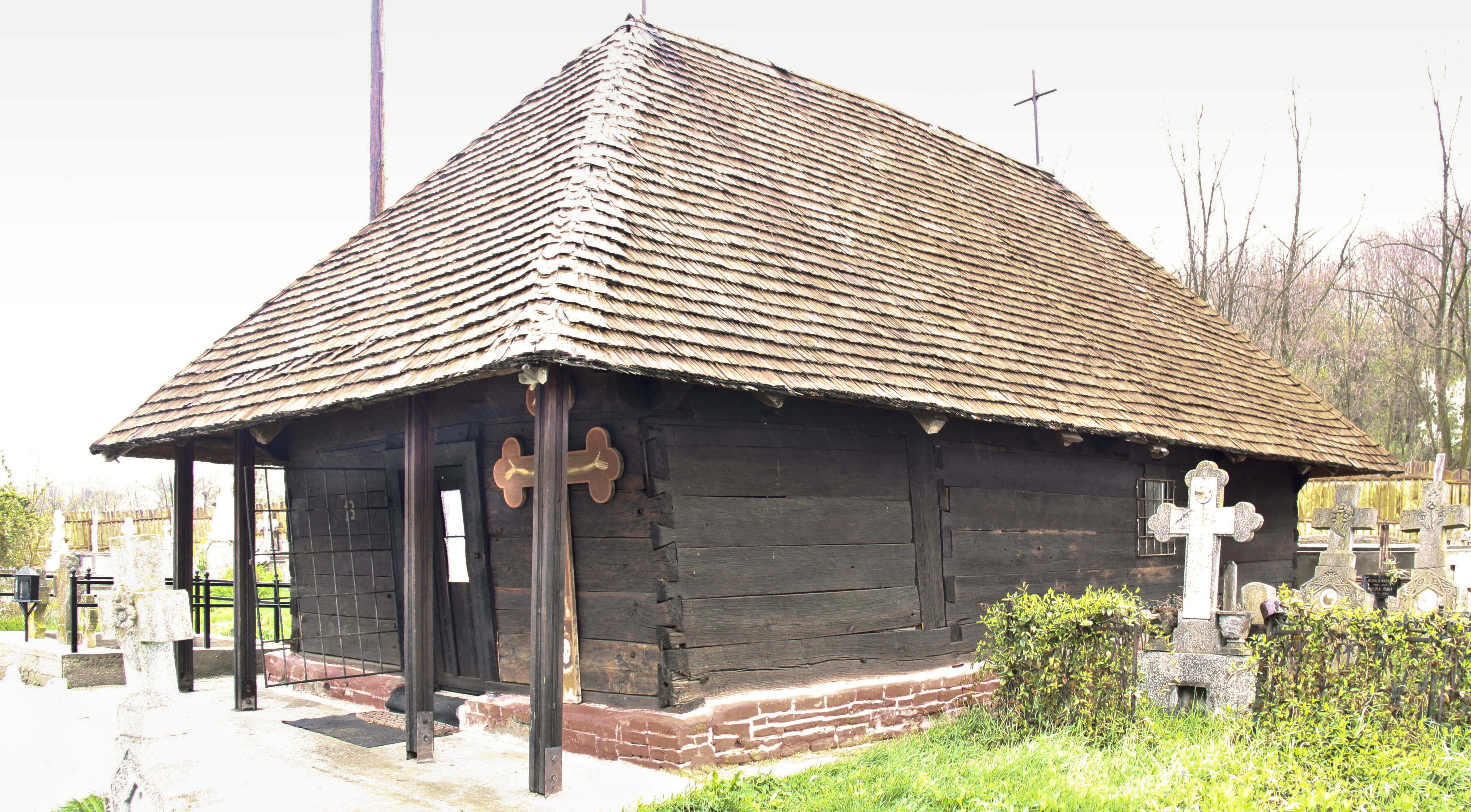 Wooden church in Teleşti, Argeş county, Romania.